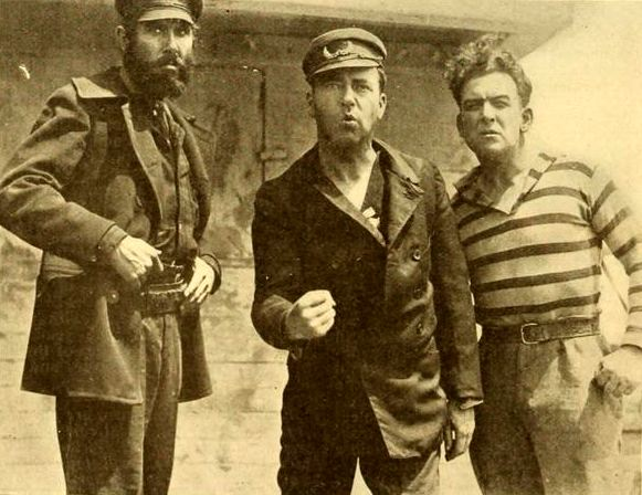 Still from the American film serial Man of Might (1919) with three unidentified actors, on page 344 of the January 18, 1919 Moving Picture World.